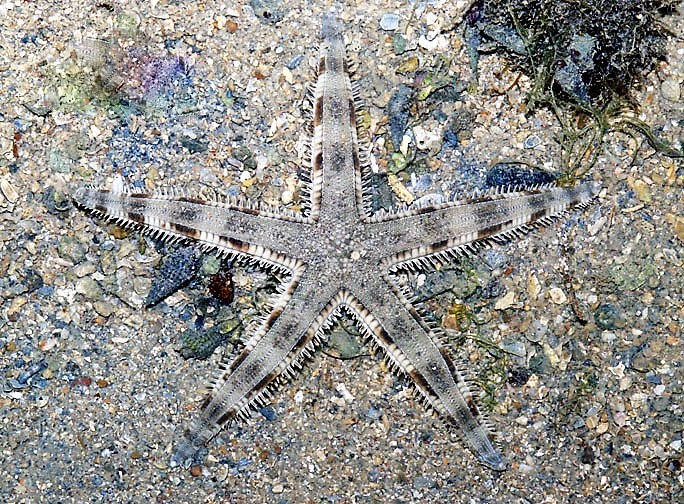 Archaster typicus. More about this sea star on the wildfacts sheets on wildsingapore. For a high res version of this photo, please review the details on about using my photos. When making the request, please include this reference: 070204hntg7556